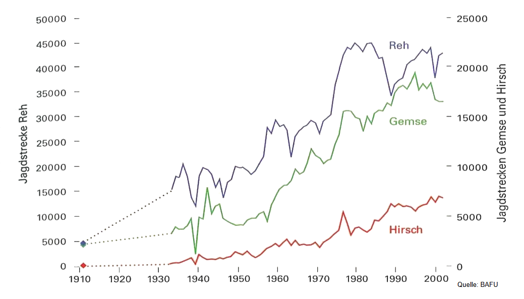 Annual hunting bag / hunting statistics of Capreolus capreolus, Rupicapra rupicapra and Cervus elaphus in Switzerland between ca. 1910 and 2000